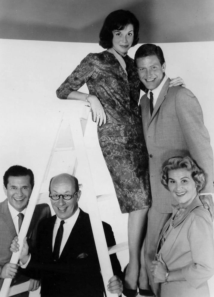 Photo of the main cast of The Dick Van Dyke Show Above: Mary Tyler Moore (Laura) and Dick Van Dyke (Rob). Lower: Morey Amsterdam (Buddy), Richard Deacon (Mel) and Rose Marie (Sally).